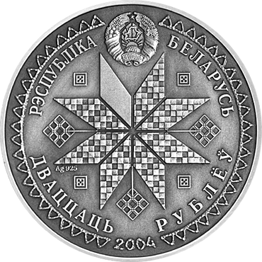 "Kaljady", Silver commemorative coins, denomination: 20 rubles